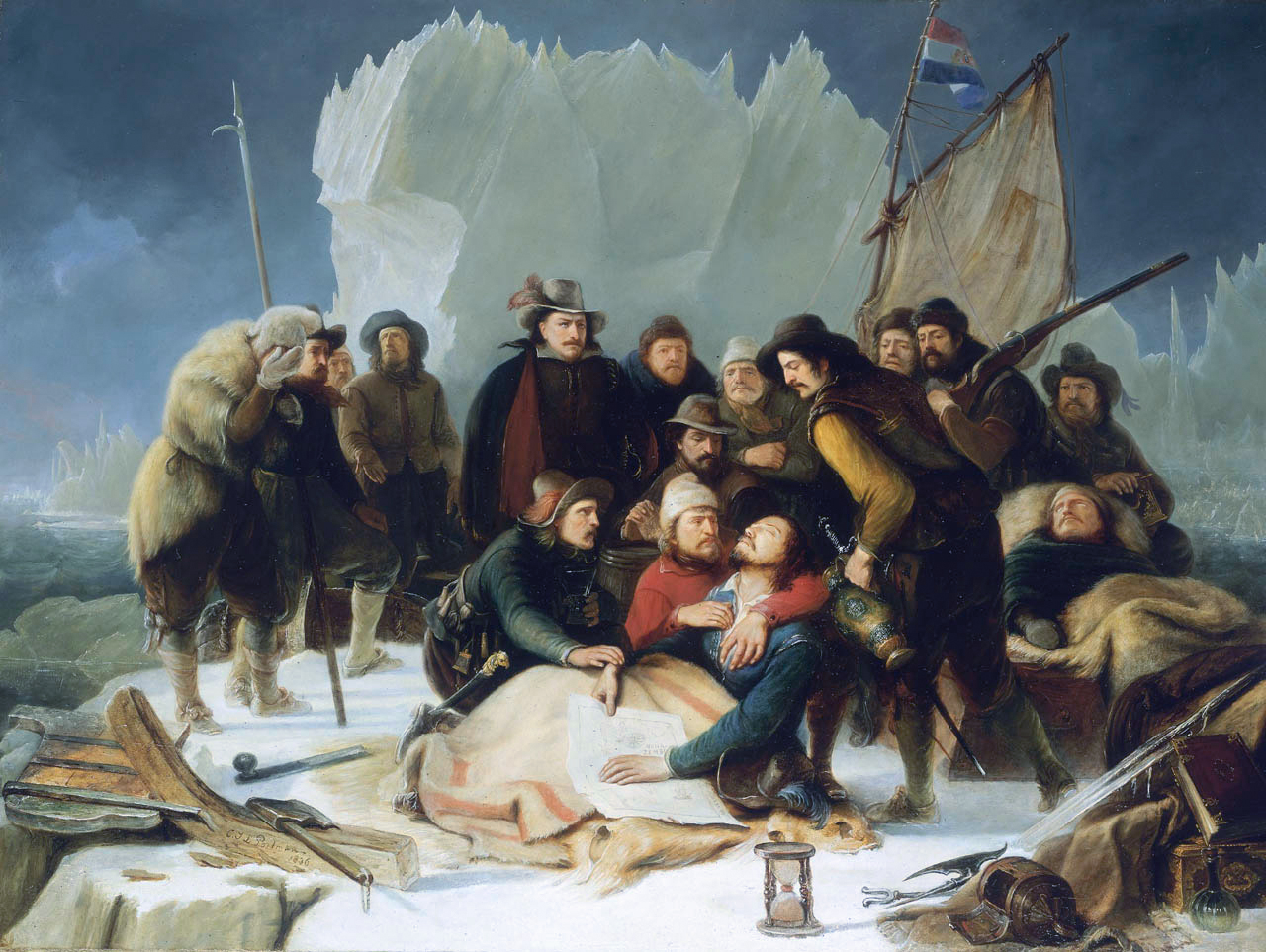 The Death of Willem Barentszlabel QS:Len,"The Death of Willem Barentsz" label QS:Lde,"Der Tod des Willem Barentsz" label QS:Lnl,"Dod van Willem Barentsz"